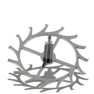 gear train, escape wheel